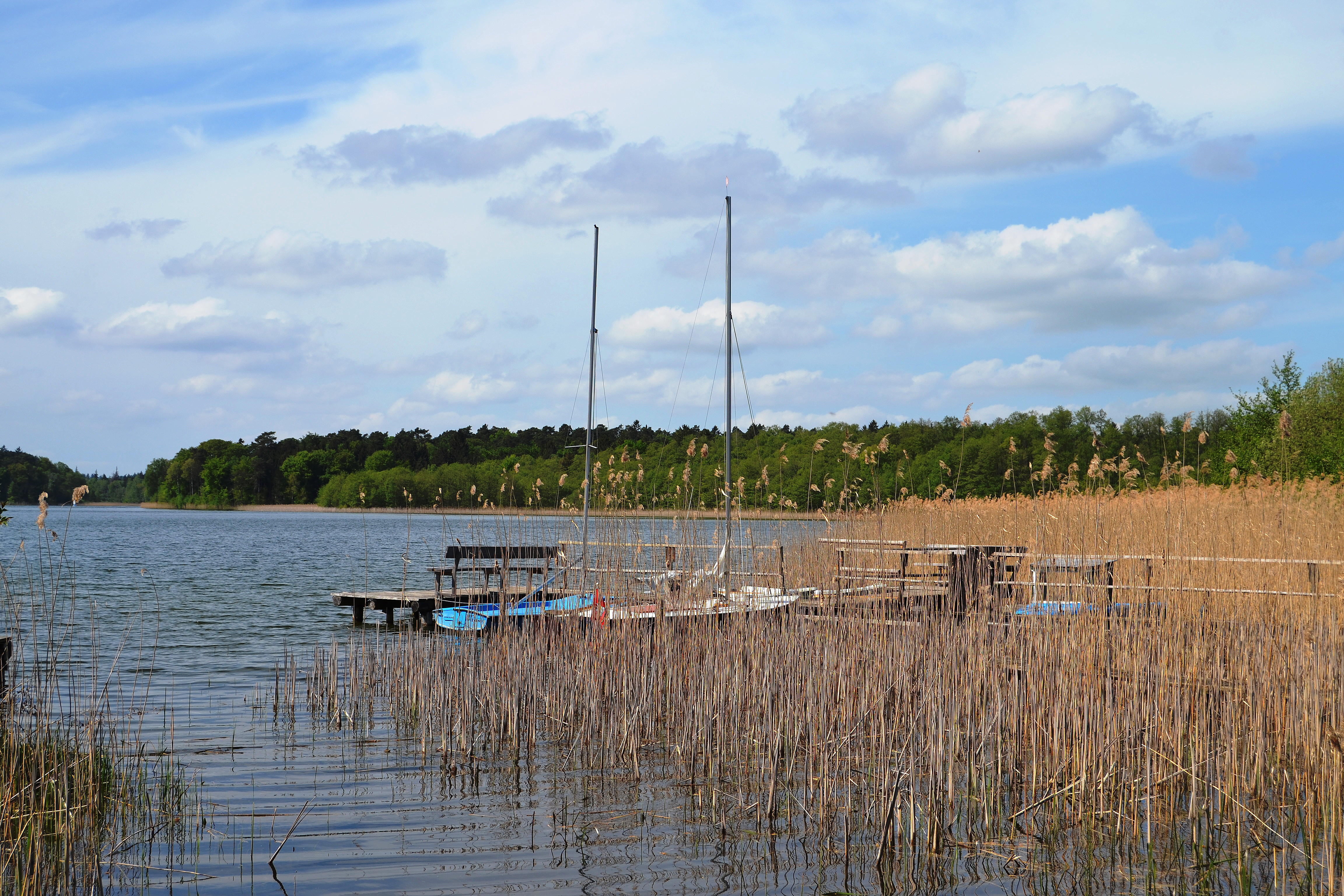 Küchensee at Groß Zecher (Herzogtum Lauenburg, Schleswig-Holstein, Germany)